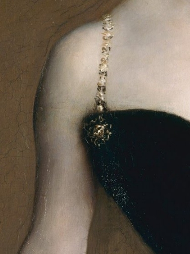 Detail of Madame X (Madame Pierre Gautreau), John Singer Sargent, 1884, showing saponation in the black dress. Detail of this painting